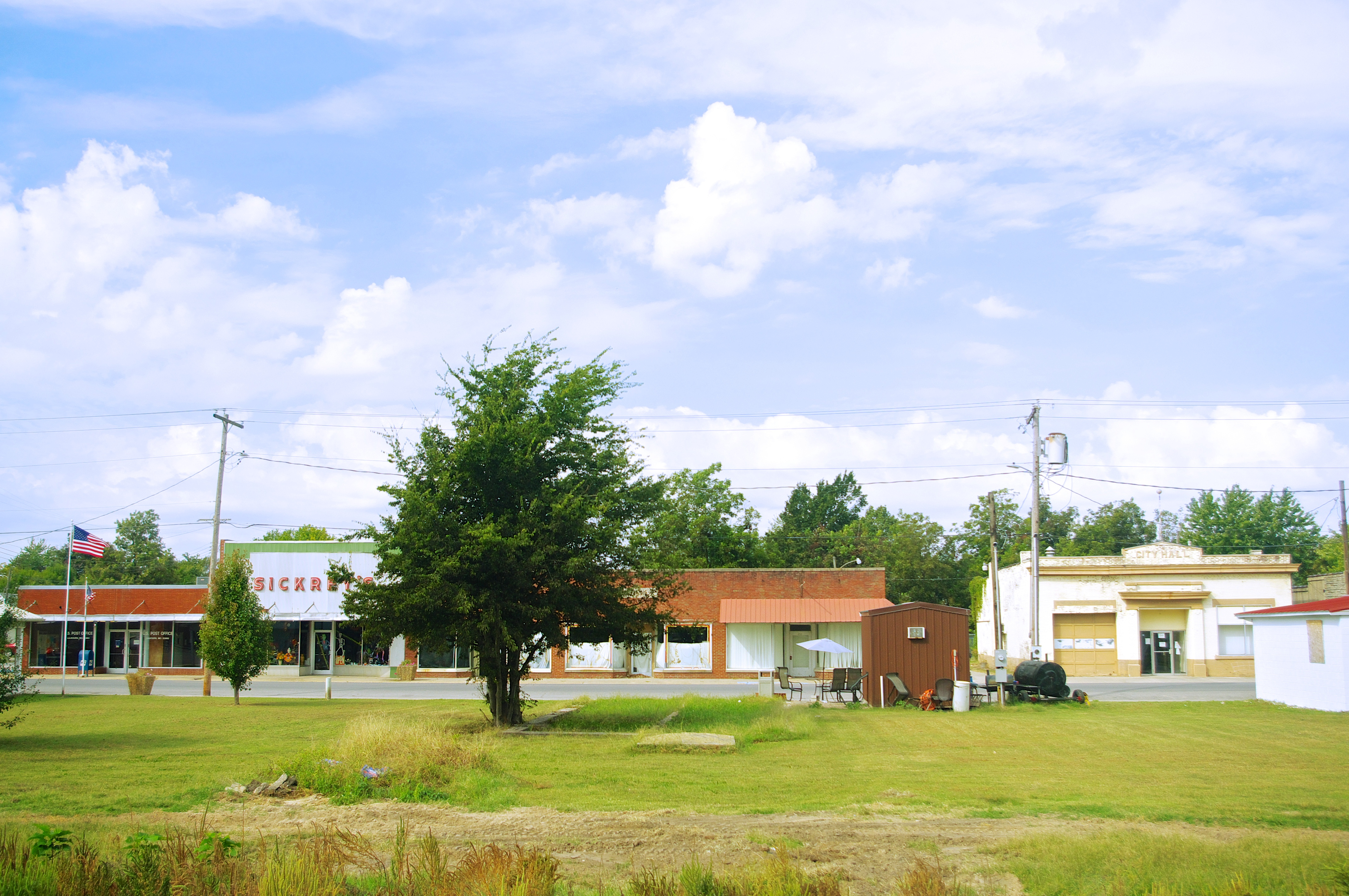 Buildings along 3rd Street in Lilbourn, Missouri, United States.